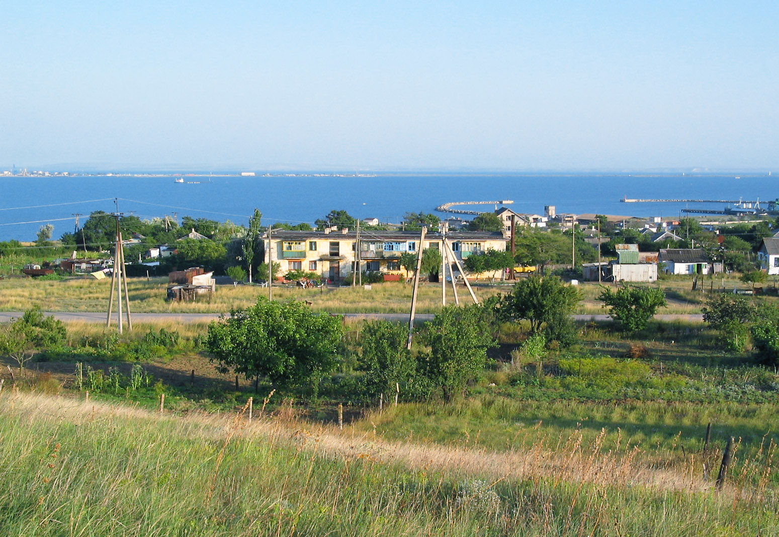 Kerch, Kashirin street